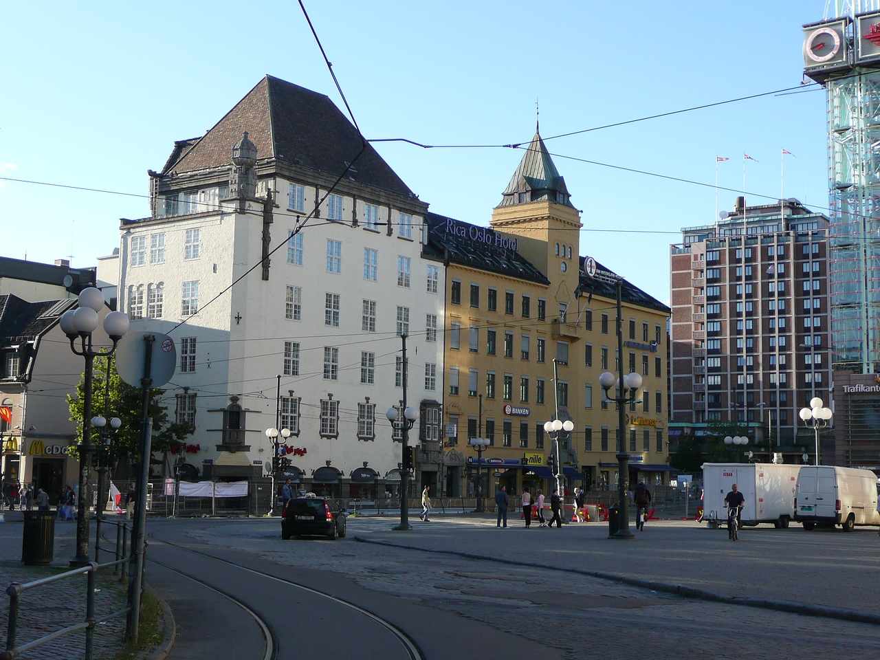 Picture of Jernbanetorget in Oslo. Situated in the center of the city it was built in the early 90's and is part of the central city system. Jernbanetorget is also a central place close to Bjørvika and Oslo East train station and the Oslo Central Station.